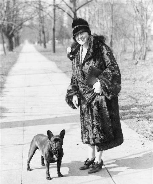 Mary Roberts Rinehart with french bulldog